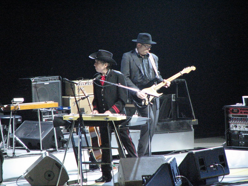 Bob Dylan at the Air Canada Centre, Toronto, Ontario, Canada